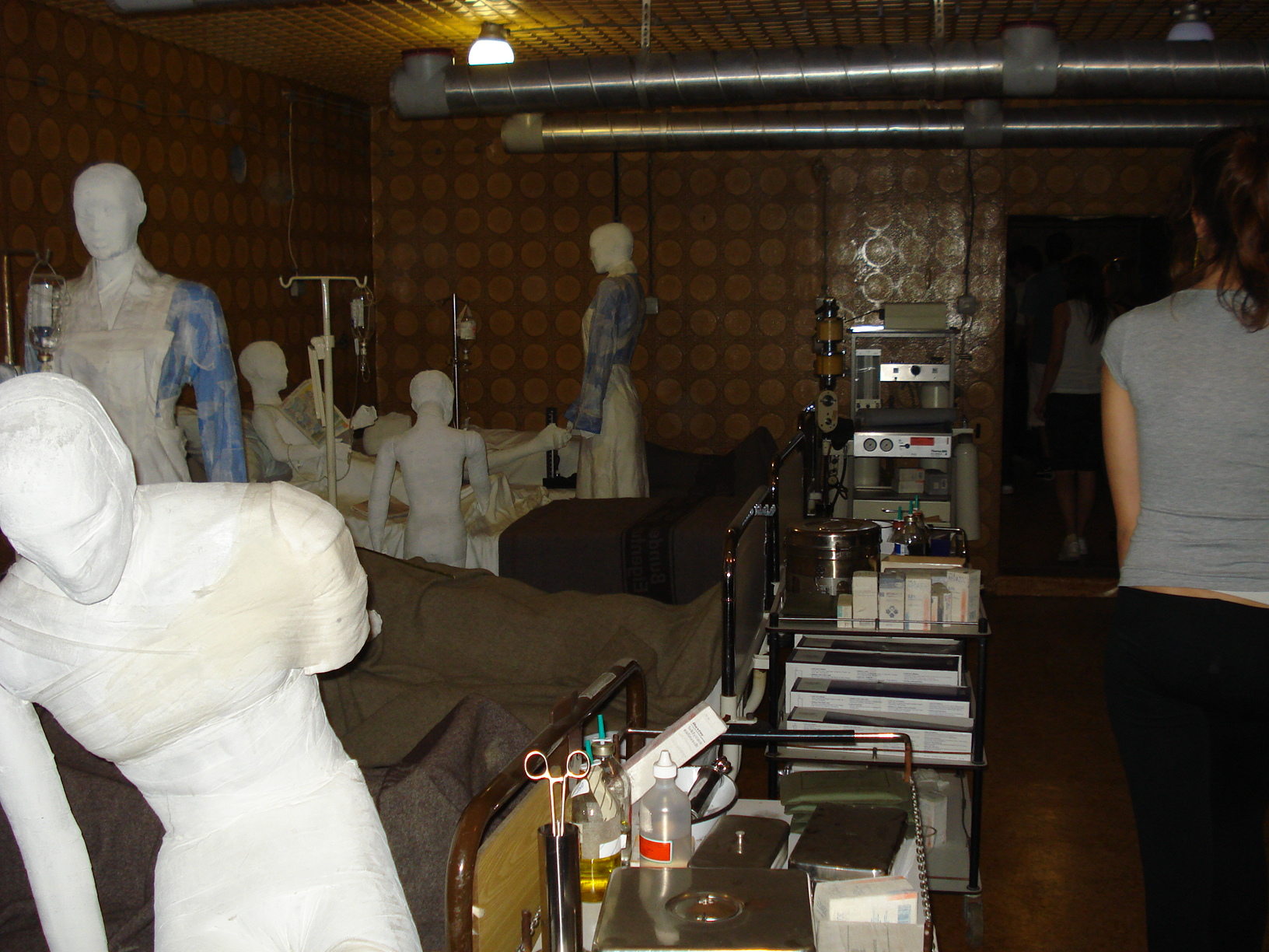 A group of high school students visits the Vukovar war memorial dedicated to the patients in Vukovar hospital which were evacuated by the JNA army, brought to and executed in Ovčara on 20 November 1991. It's interesting to point out that the memorial is located in the actual hospital where the incident occured. The hospital is still working today and secured that location exclusively for the memorial, including puppets which represent patients in 1991.